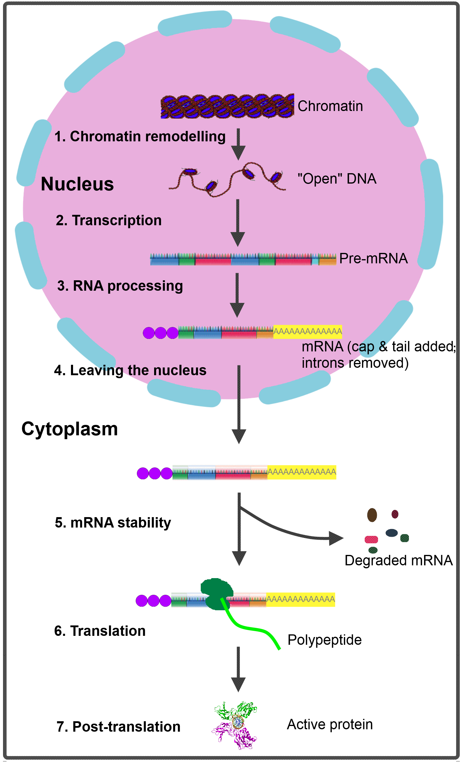 Overview of points of control for eukaryotic genes.